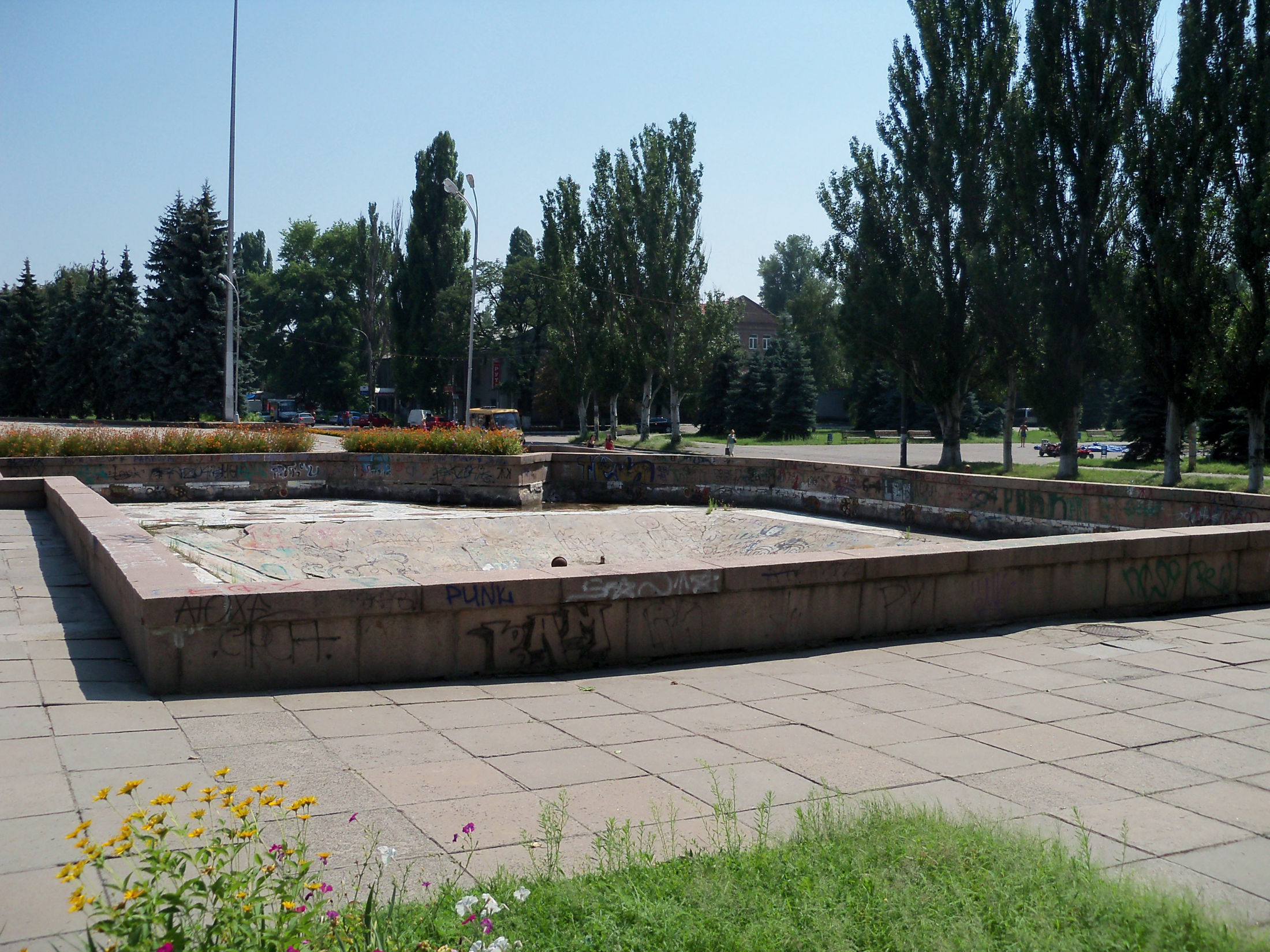 Fountain near Palace of Culture in Kremenchuk